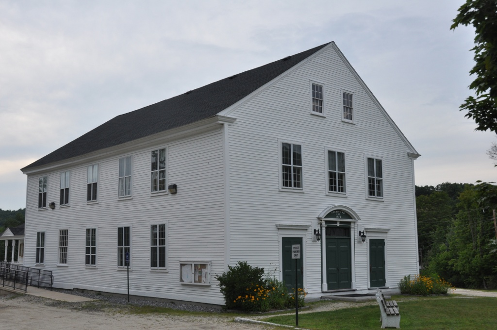 The town hall of Deering, New Hampshire.